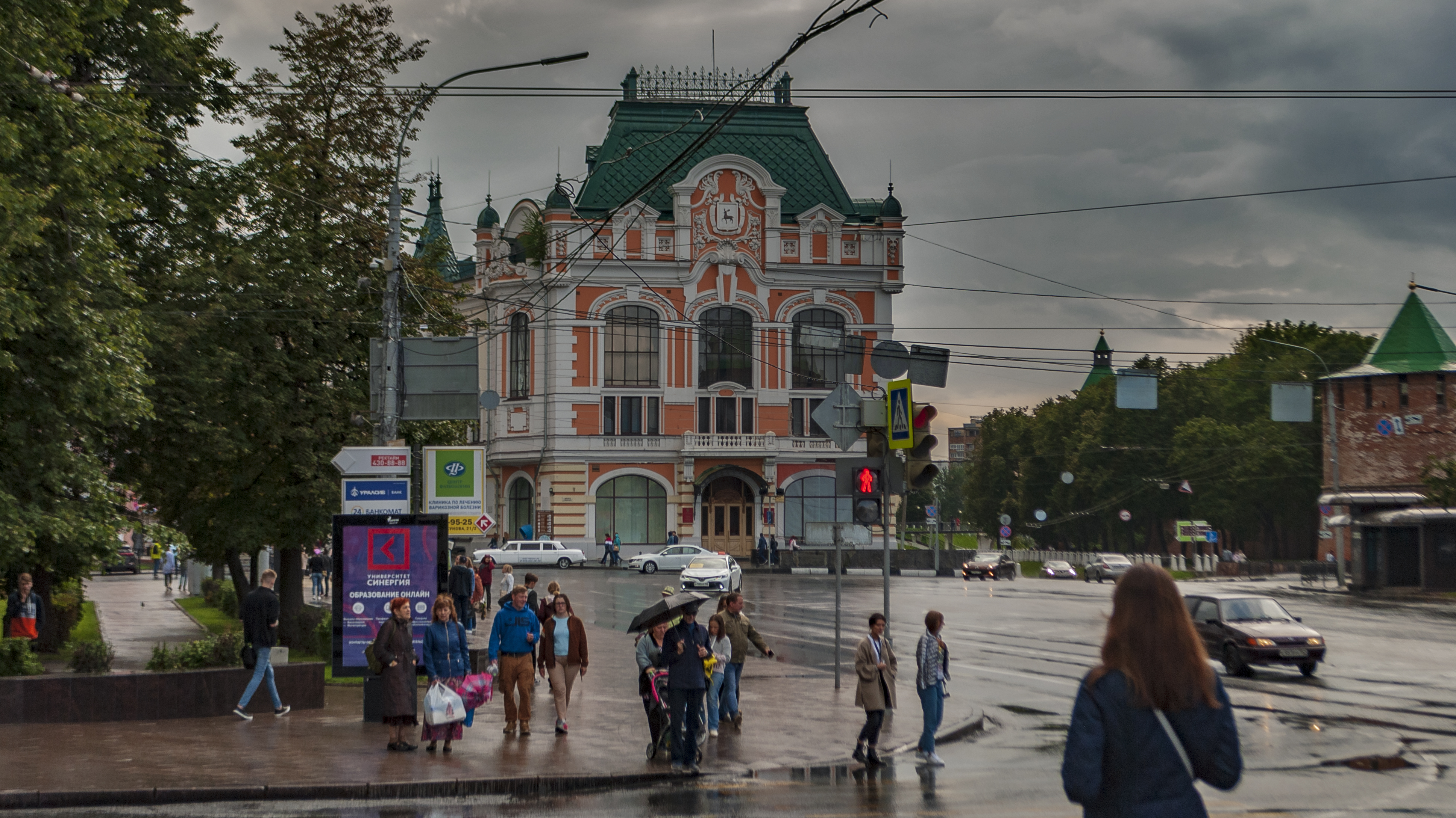 Former City Council and the Palace of Labor in Nizhny Novgorod